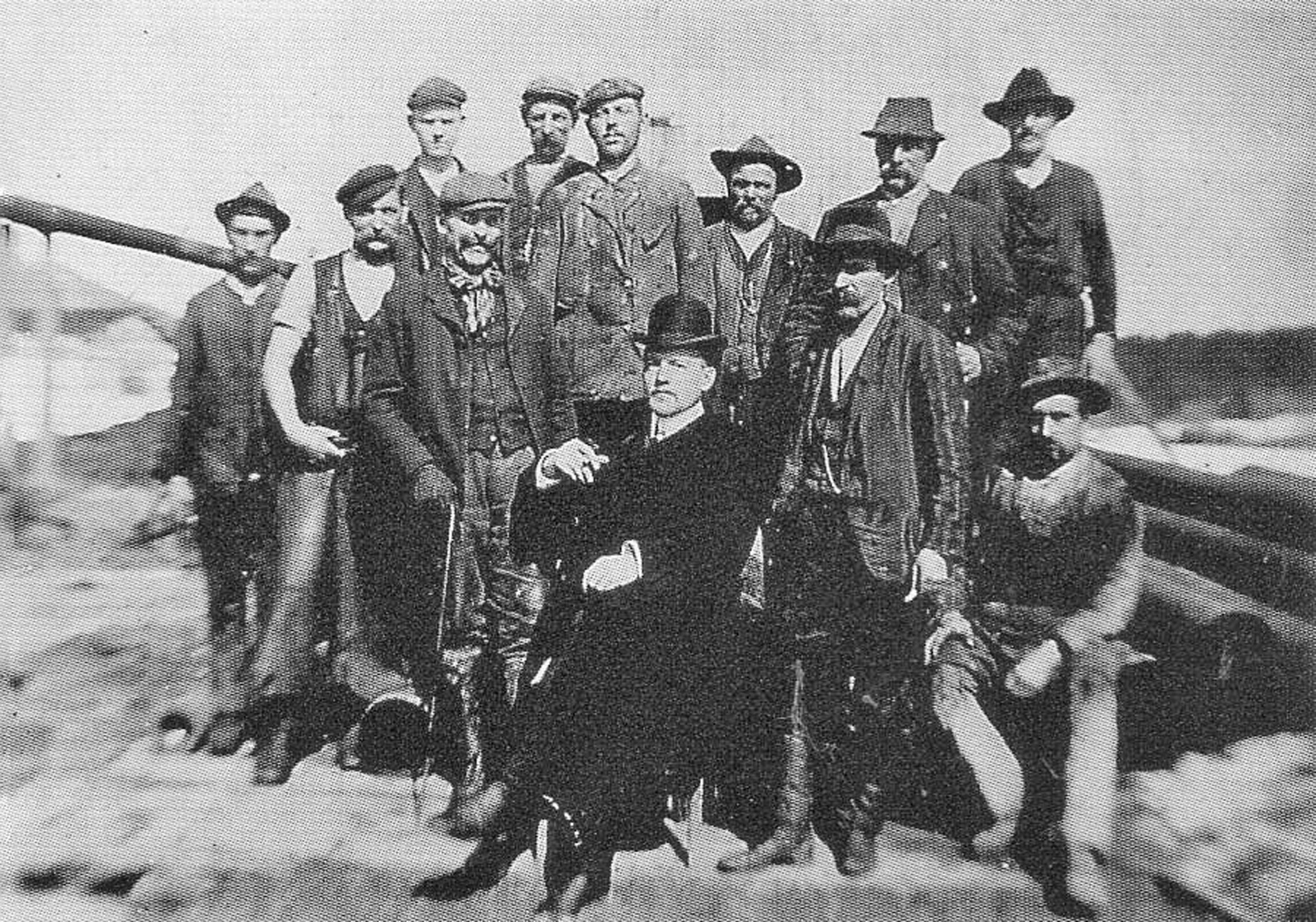 André Simon Driessen (1880–1956) with his engineers drilling for oil in Bad Wiessee, ca. 1907